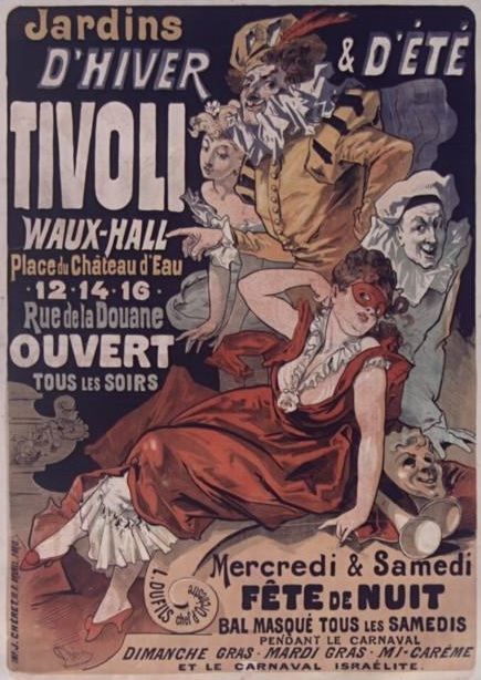 Jardin de Tivoli, Paris, in 1874.